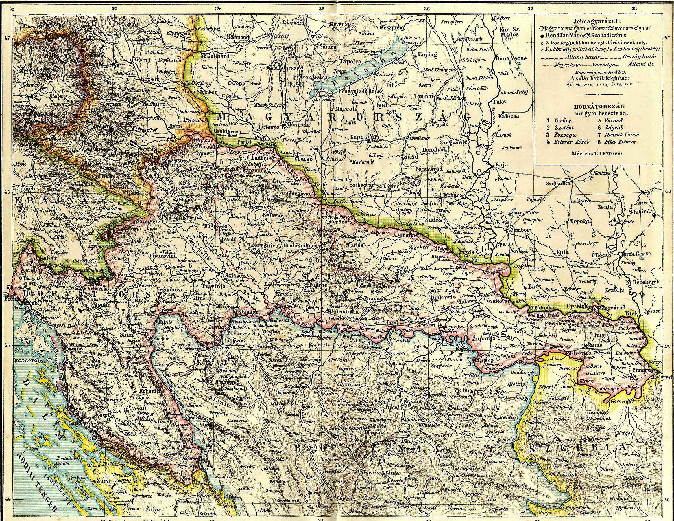 Kingdom of Croatia and Slavonia (1868-1918)